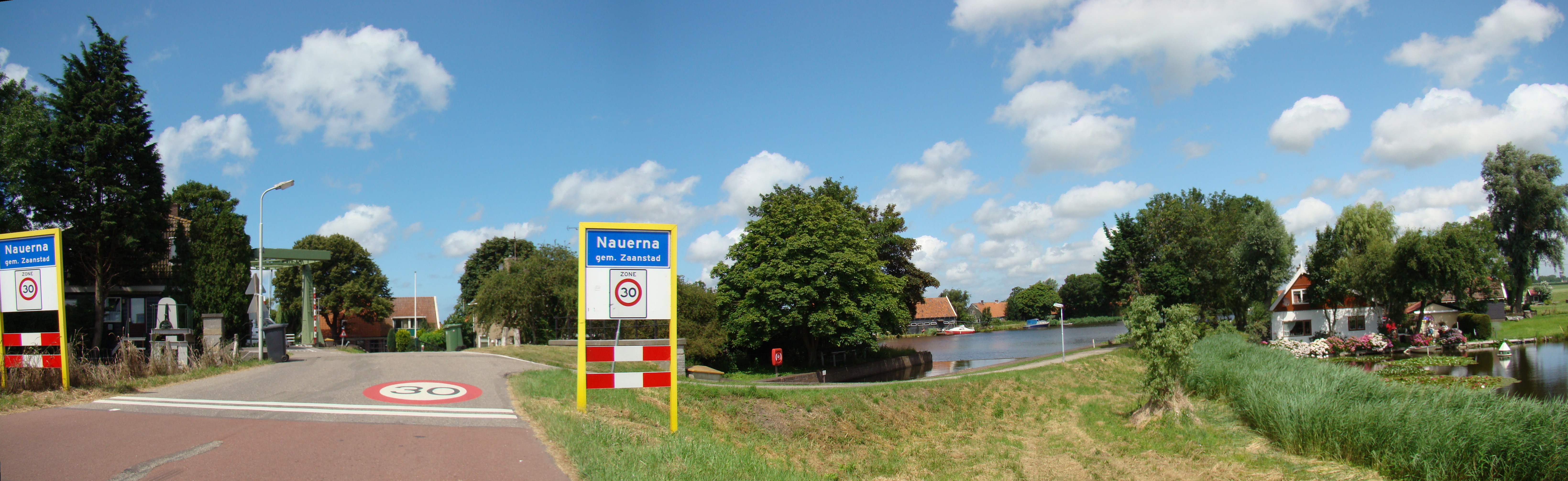 Nauerna, near Zaandam, the Netherlands